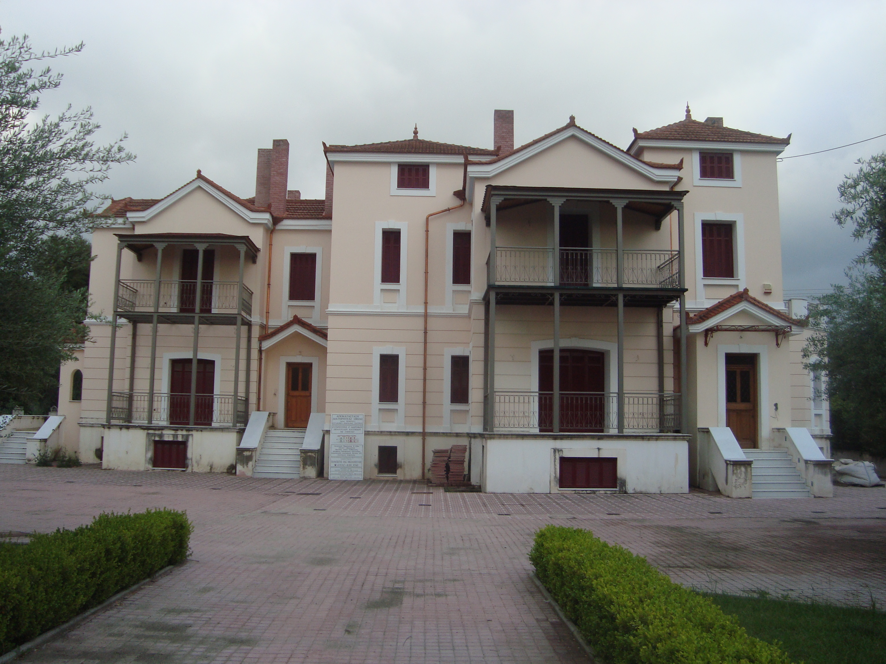 Morphy Villa, Egglezika Patras